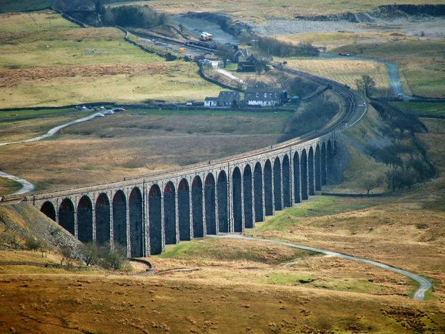 View from the flanks of Whernside. Looking SE from part way up the old 3 peaks path to Whernside. Ribblehead Viaduct.